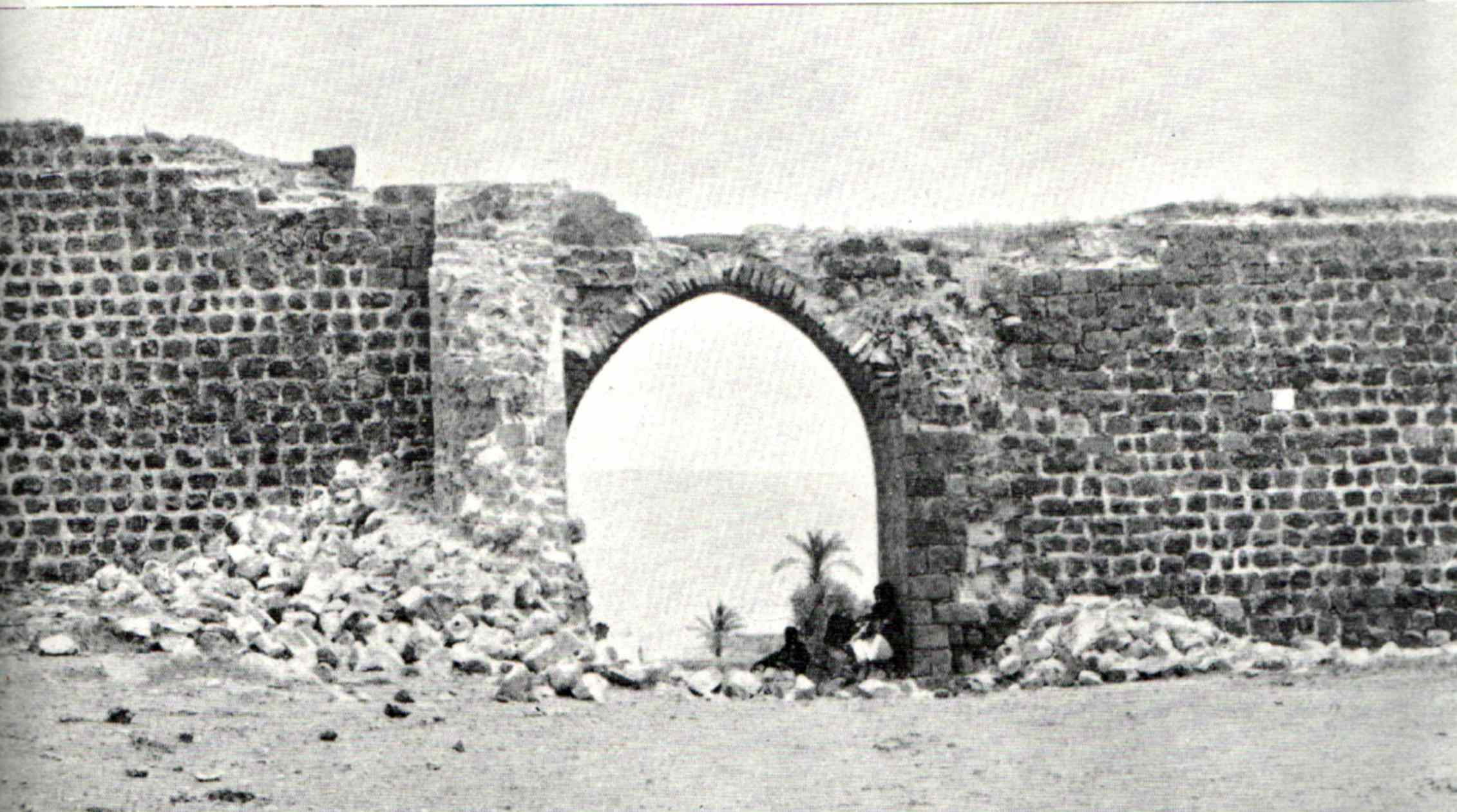 Gate In The Walls, 1894